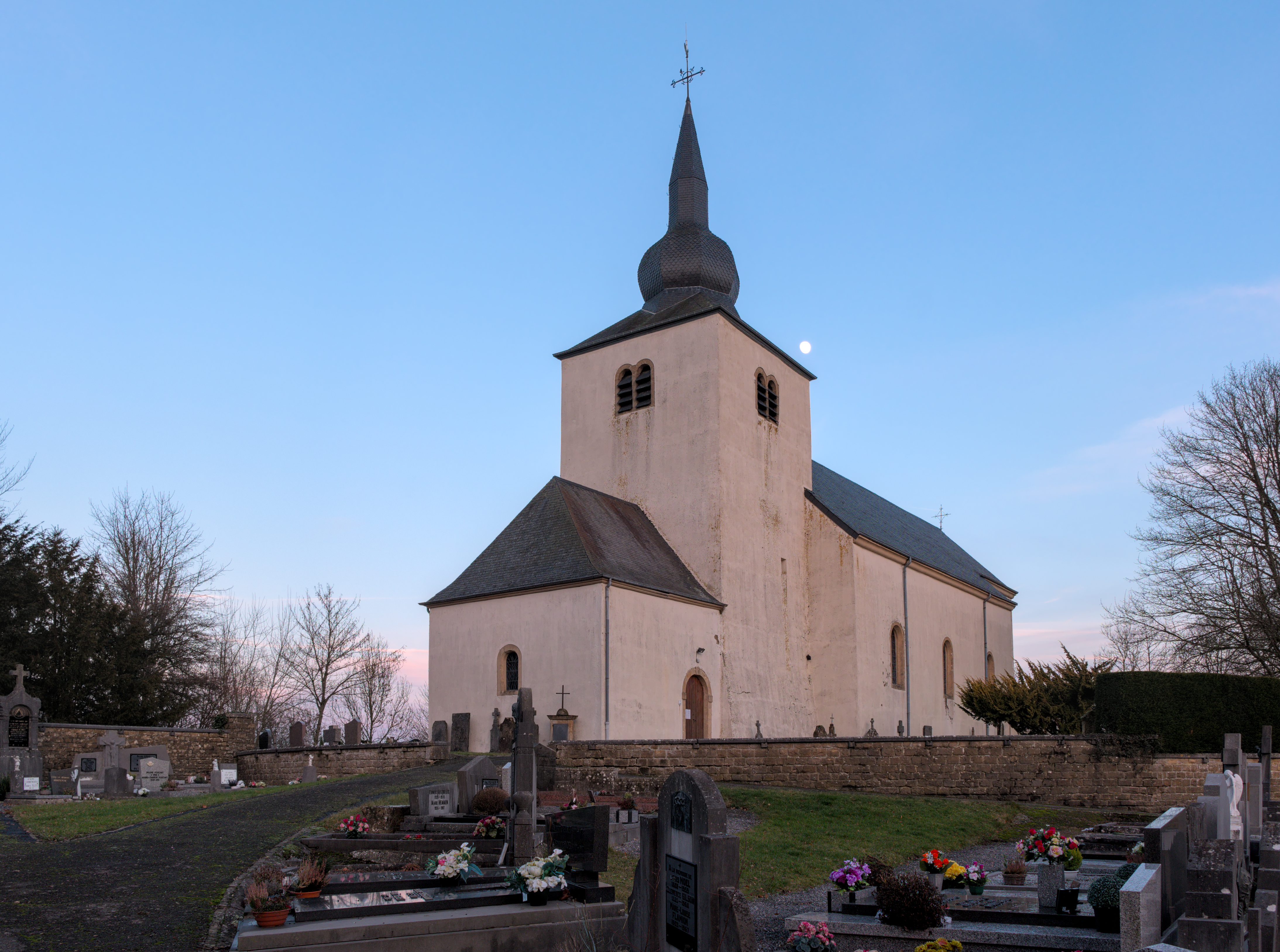 Église Saint-Pierre de Jamoigne during golden hour (Chiny, Belgium)) This photo of immovable heritage has been taken in the Walloon Region